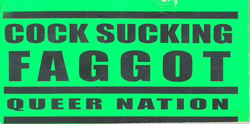 Queer Nation florescent green Snap-and-Peel sticker, 1.5x4 inches